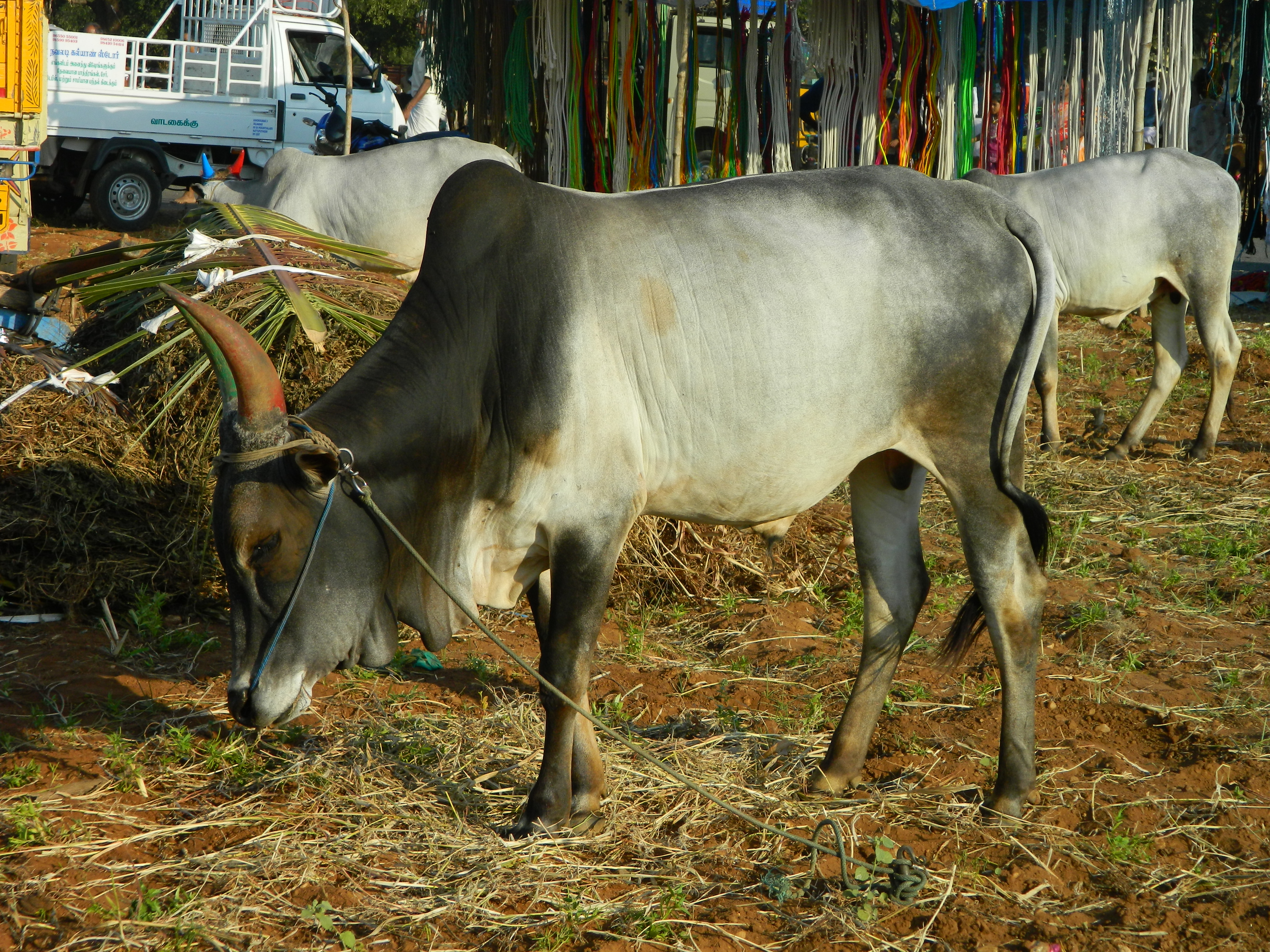 A closeup of Bull at cattle market at Kalippatti, Salem, Tamil Nadu, India